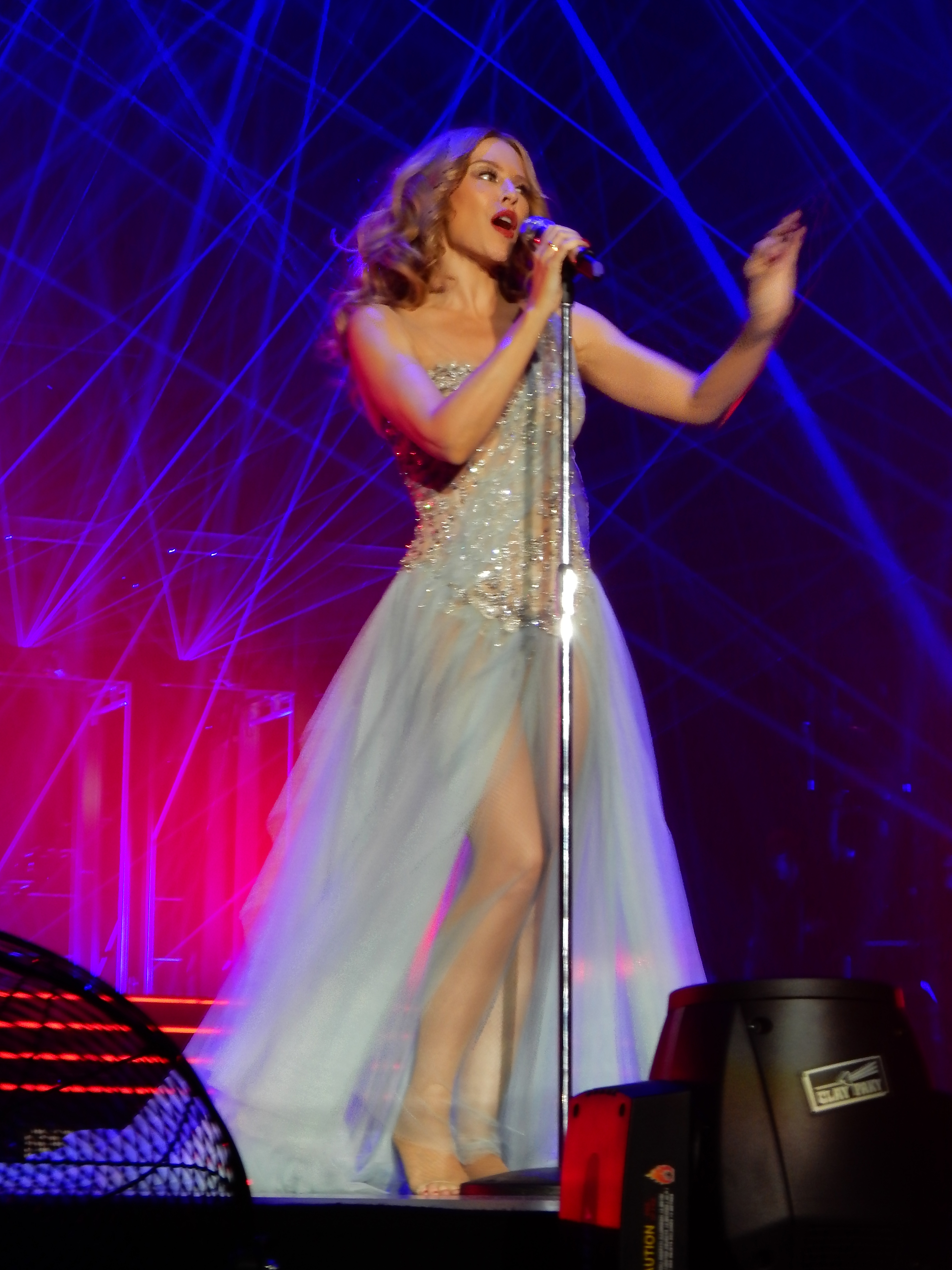 Kylie Minogue - Kiss Me Once Tour - Sheffield - 13.11.14. - 230